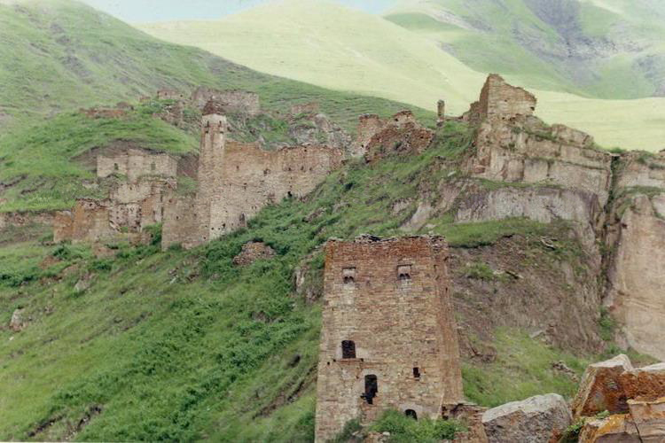 Ruins of Nikaroi. Residental tower in front.